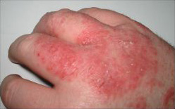 Photograph of typical, mild dermatitis